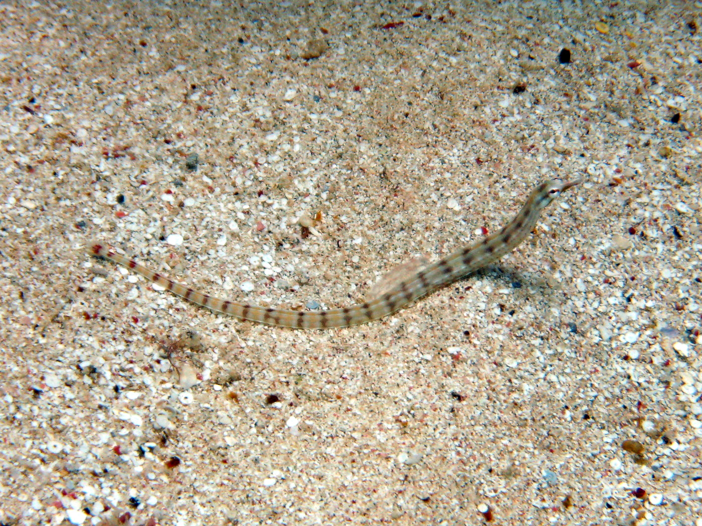 Corythoichthys flavofasciaus Al-Qusair Egypt